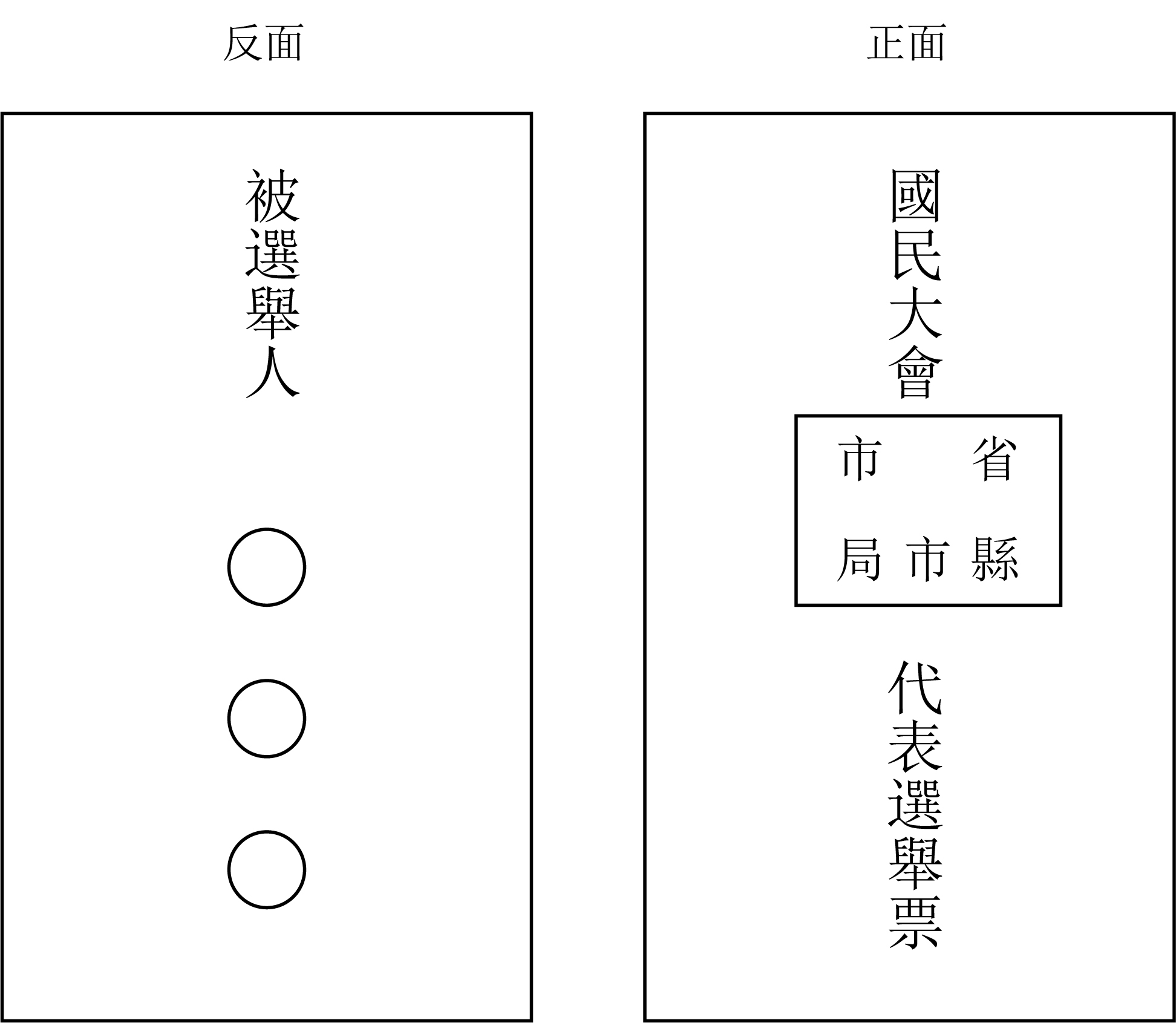 Some administrators, especially User:Shizhao, should see this picture is made by uploader.